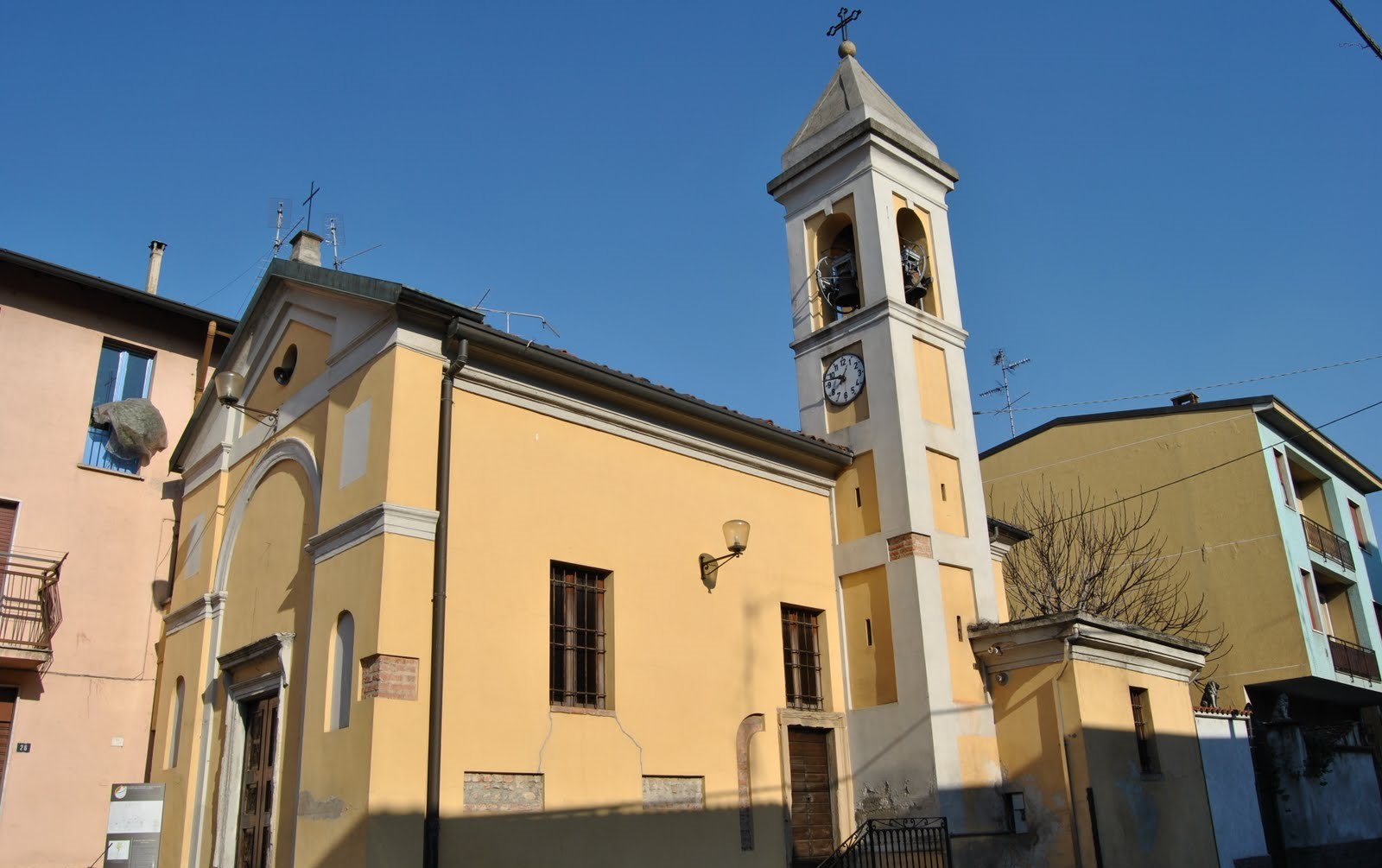 NOVA MILANESE Chiesa della Beata Vergine Assunta